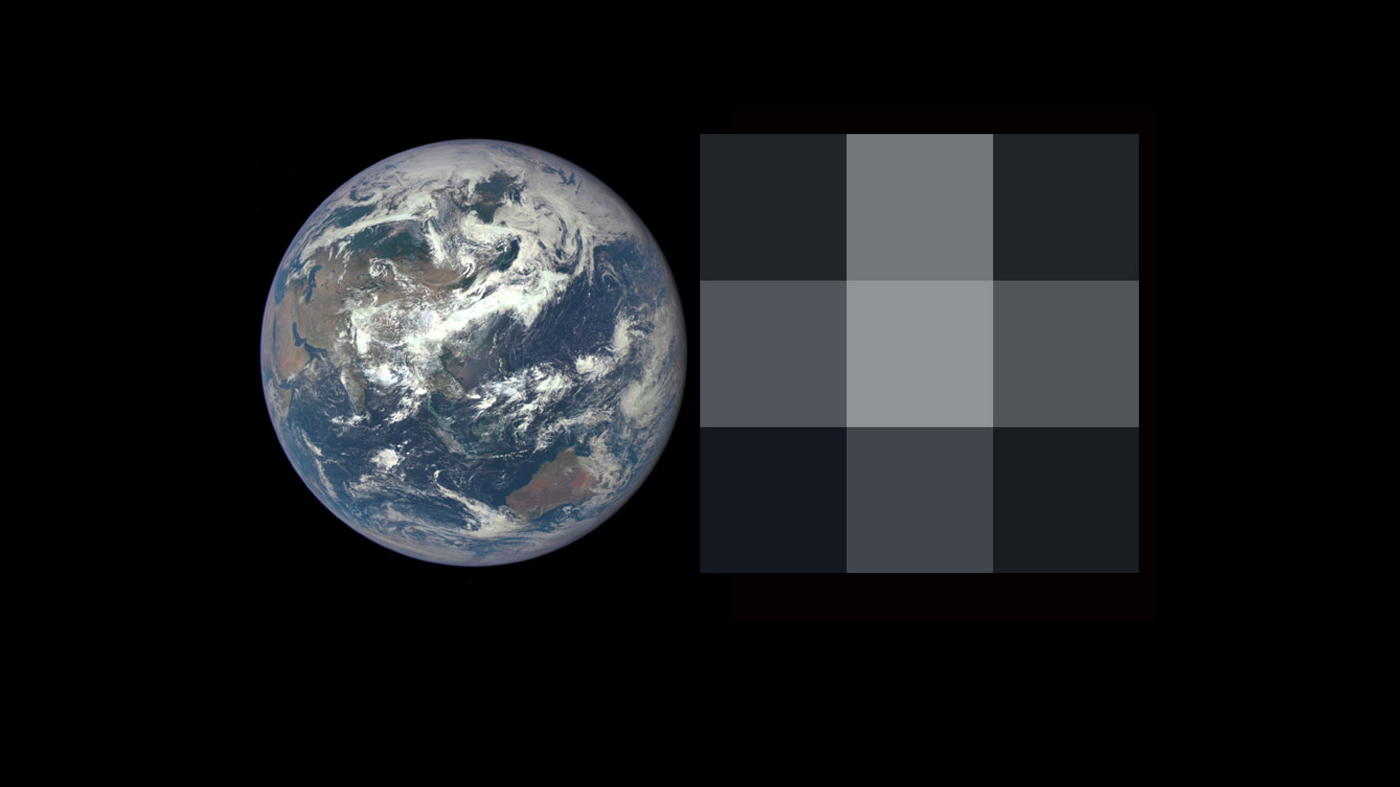 an image of Earth from the DSCOVR-EPIC camera. Right, the same image degraded to a resolution of 3-by-3 pixels, similar to what researchers will see in future exoplanet observations